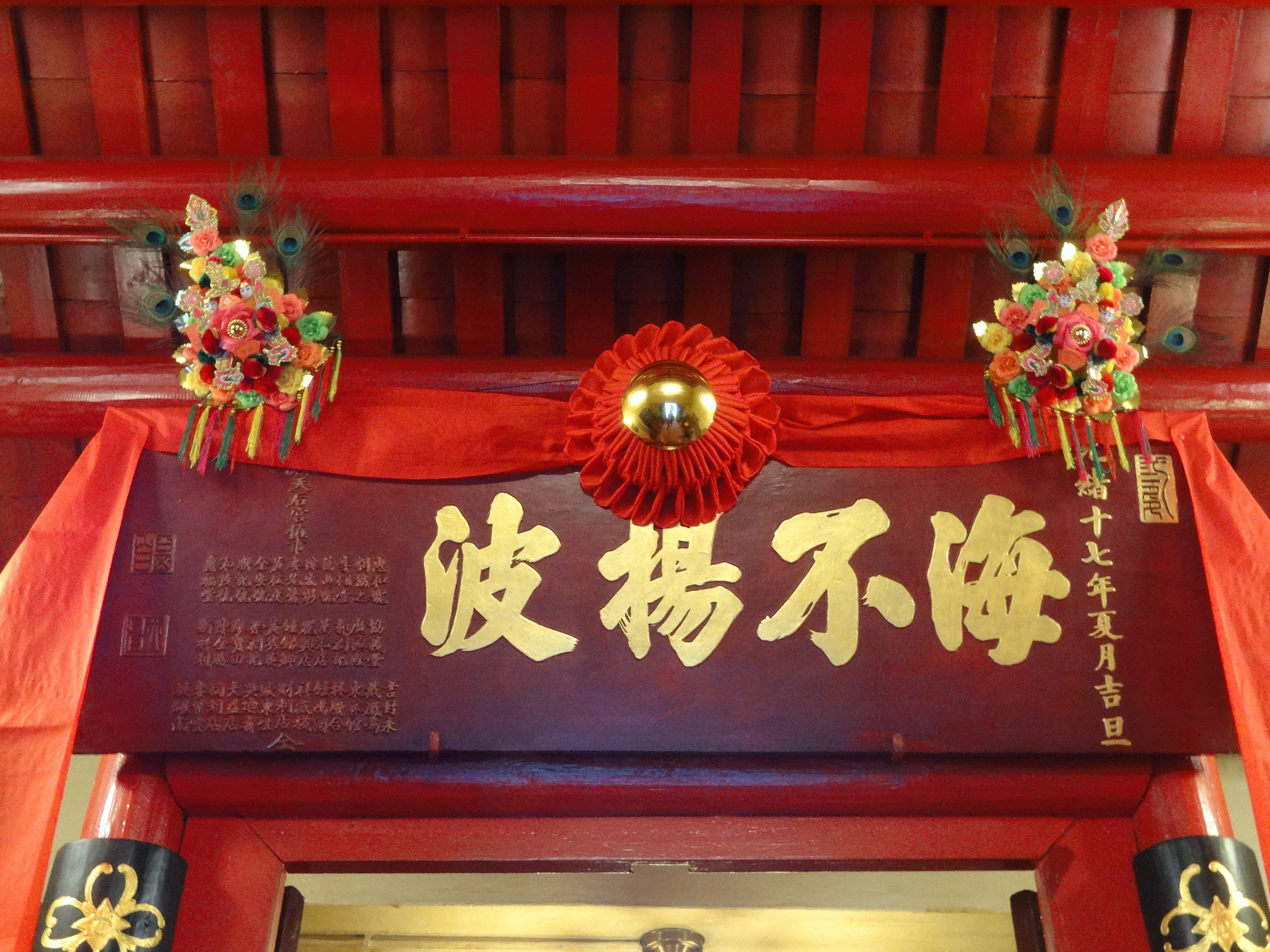 A wooden plaque with inscriptions in the Shek O Tin Hau Temple, Hong Kong.